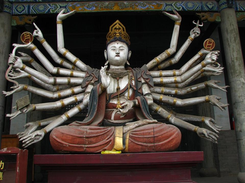 Shuanglin Si Temple. Statue at Shuanglin Si Temple, outside Pingyao, China, Pingyao.